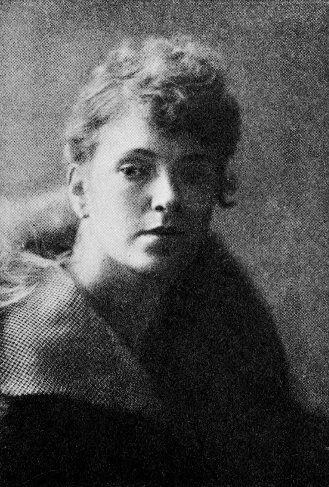 Actress Olga Baklanova